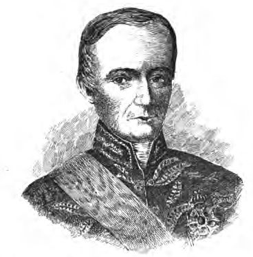 Antônio Carlos Ribeiro de Andrada Machado e Silva drawing on Tancredo do Amaral's book.